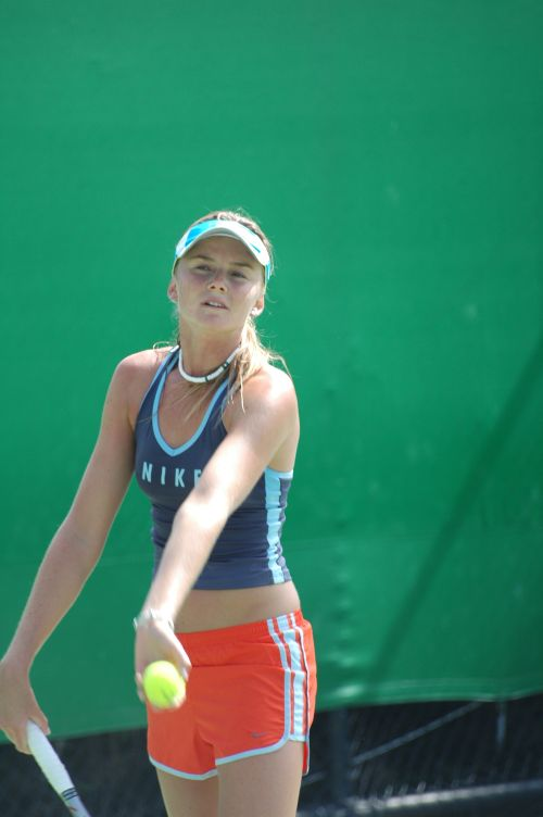 Daniela Hantuchová practicing her serve during 2005 Australian Open